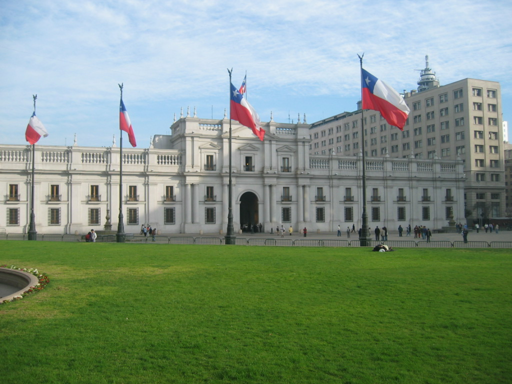 The historical Moneda in Santiago, Chile.